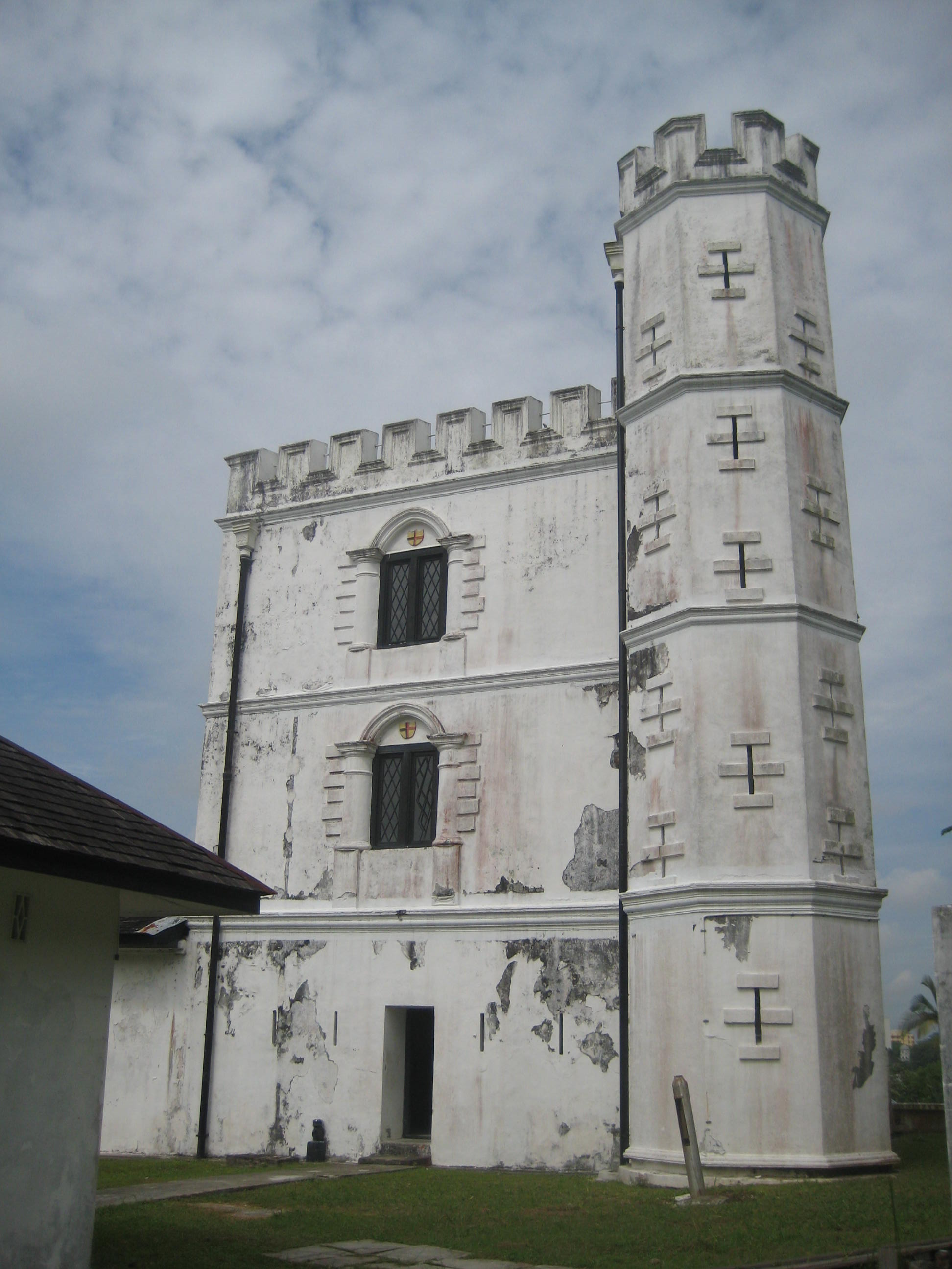 Fort Margherita - in need of some maintenance.